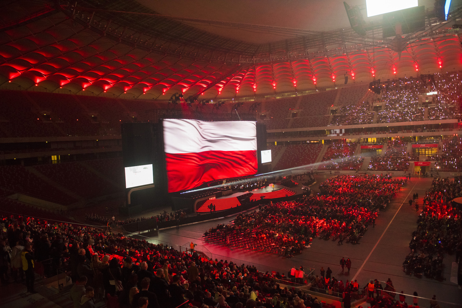 Concert for Independence. November 10, 2018. Warsaw. Poland.